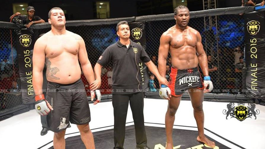 KHK MMA Tryouts